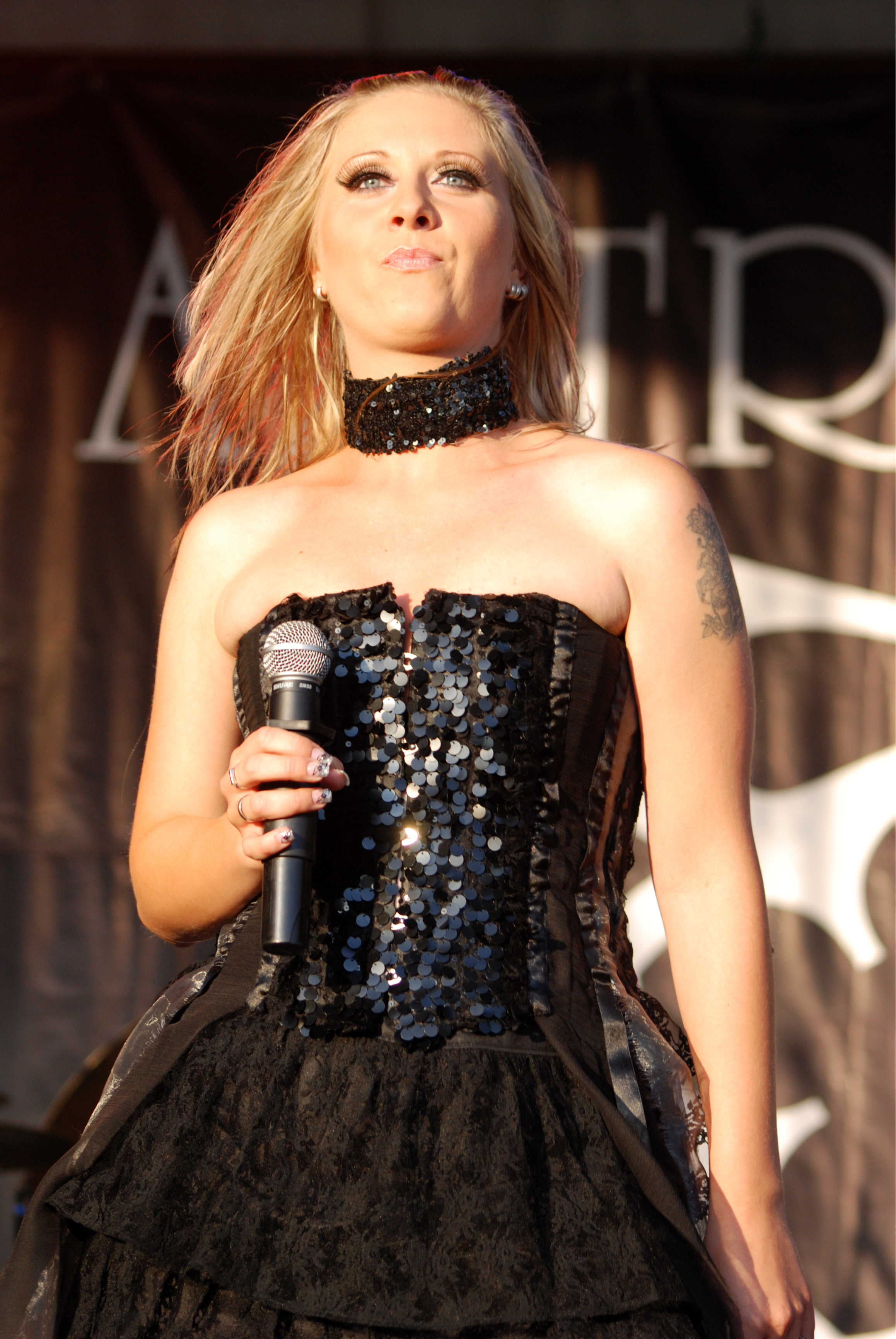 This photo was made in cooperation with CASTLE PARTY PRODUCTIONS in Bolków (webpage)